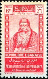 A Stamp Issued by the Lebanese Government under French Mendate, in 1942. It shows a Drawing of Emir Bashir Chehab II.